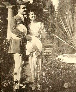 Still from the American film Hornet's Nest (1919) with Earle Williams and Vola Vale, page 759 of the July 19, 1919 Motion Picture News.